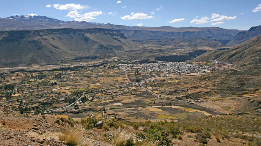 Chivay